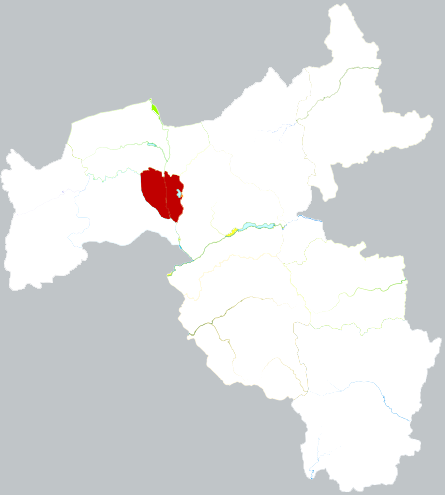 Location of Pingcheng district in Datong City, China